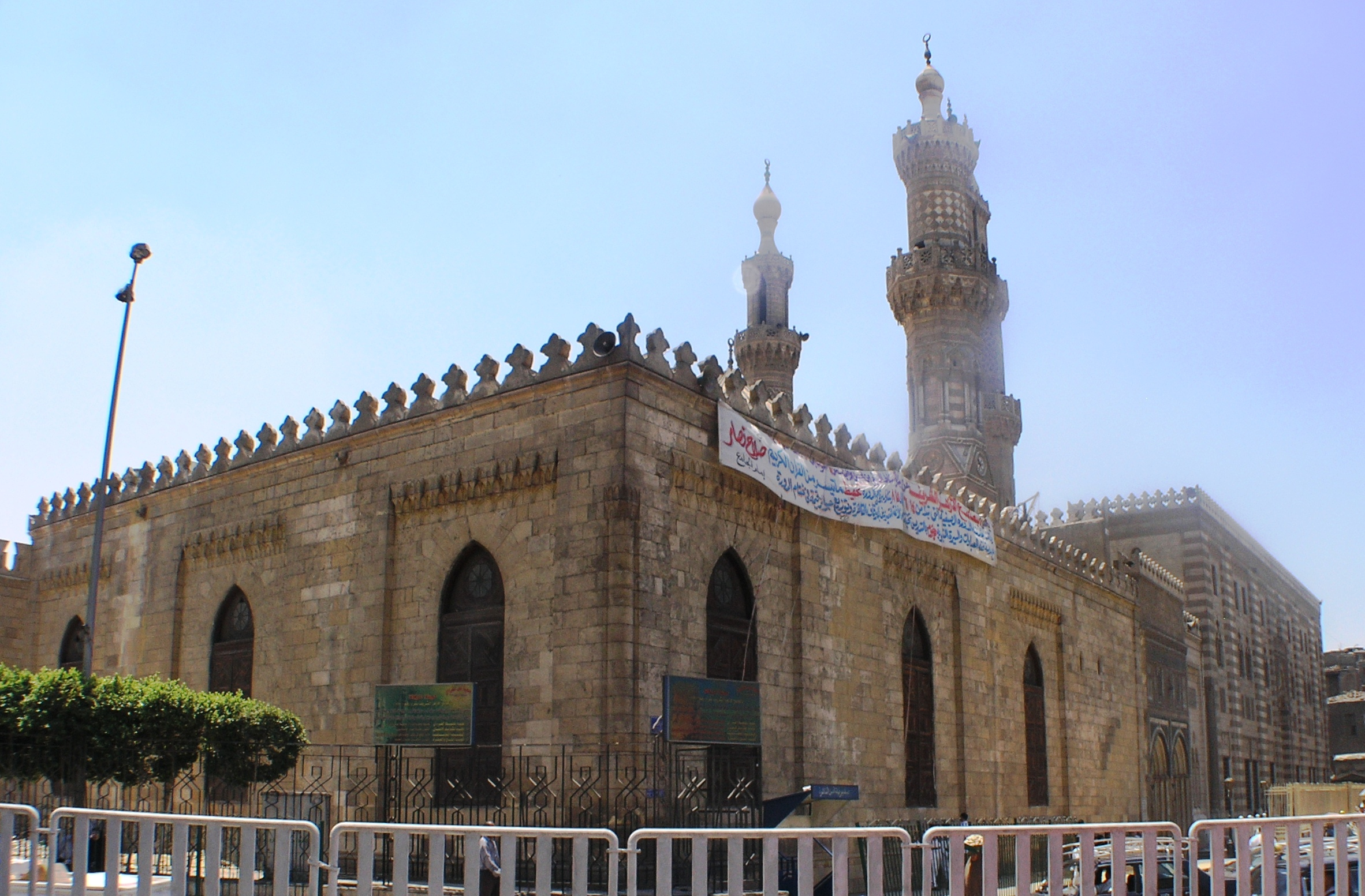 Cairo - Islamic district - Al Azhar Mosque and University front